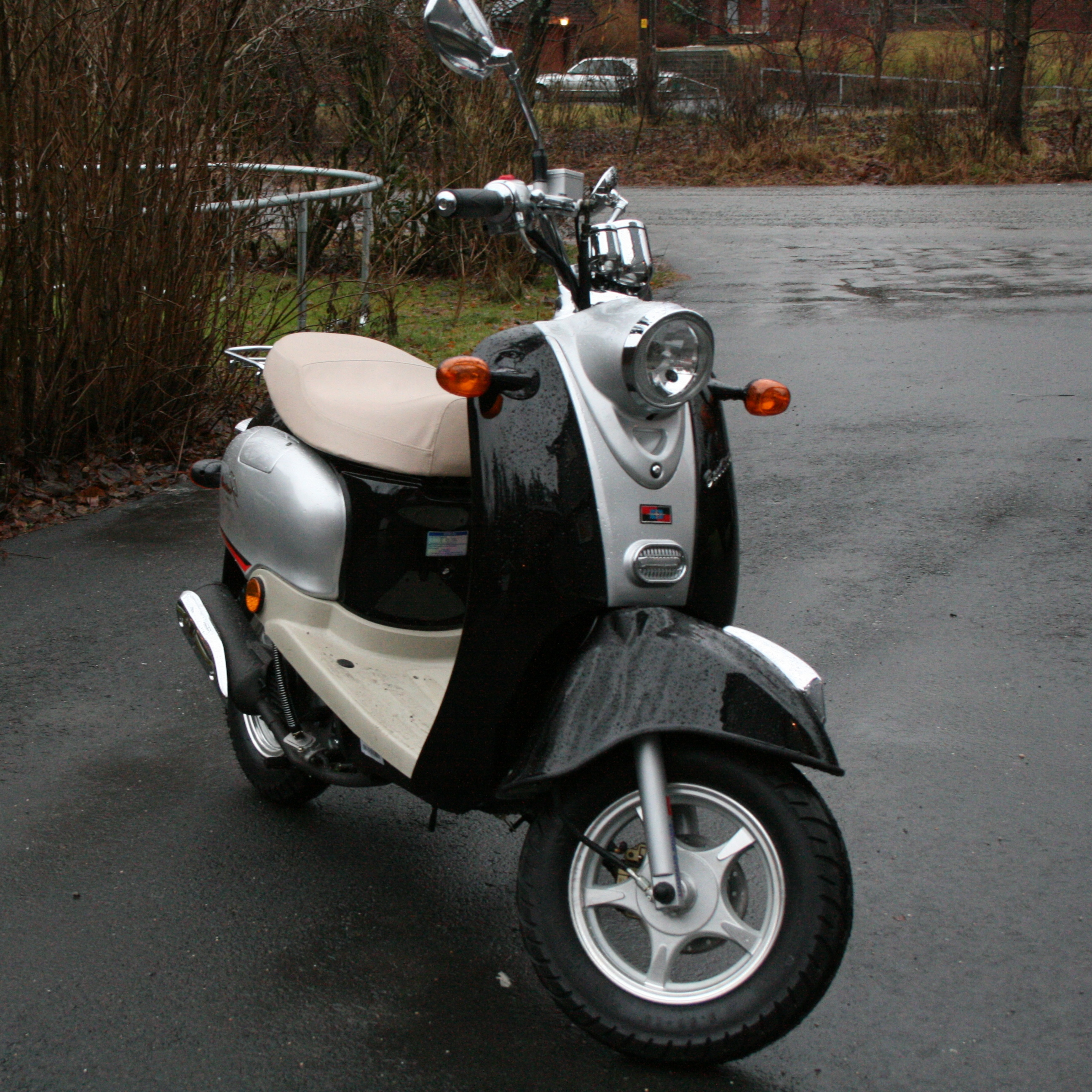 A Baotian BT-Retro in the color combination black/silver.